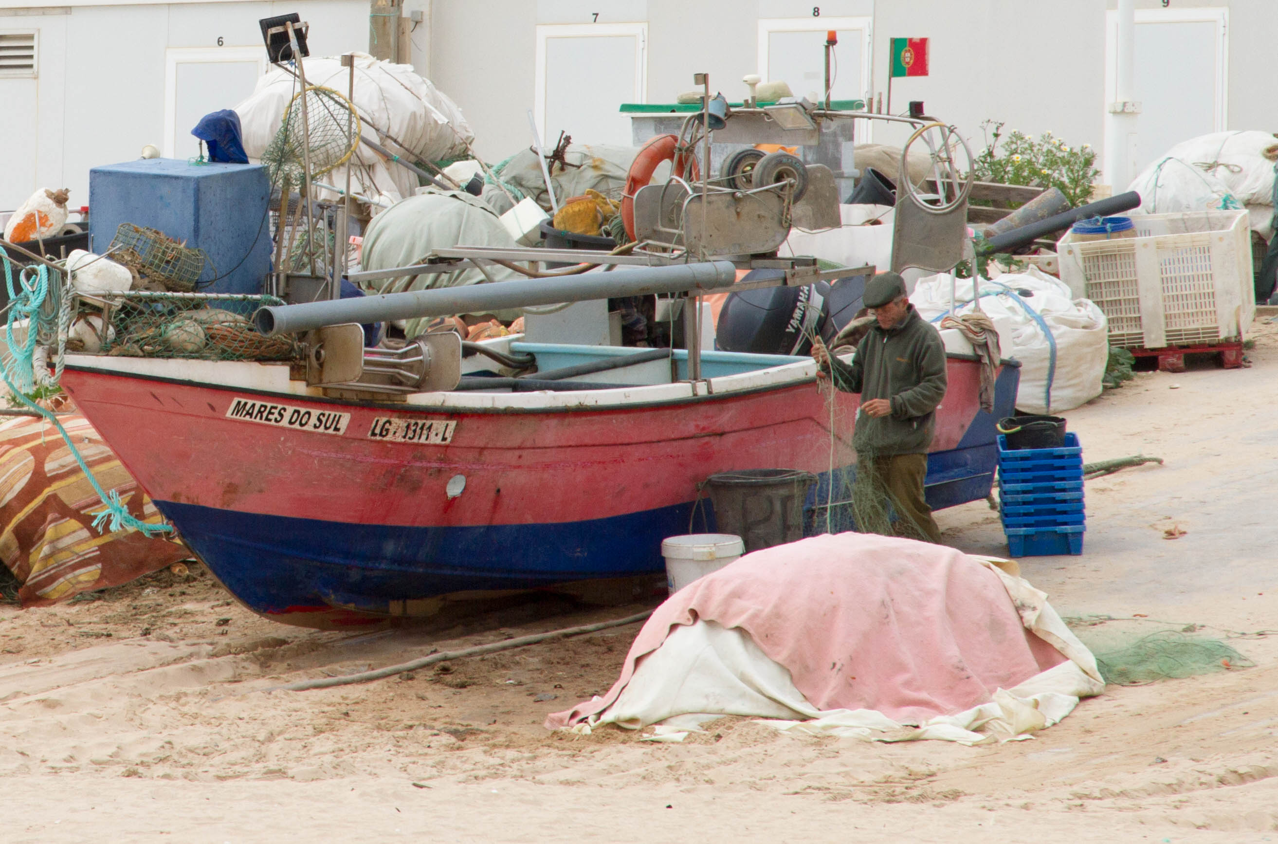 The making of this document was supported by the Community-Budget of Wikimedia Germany. Fishing in Salema